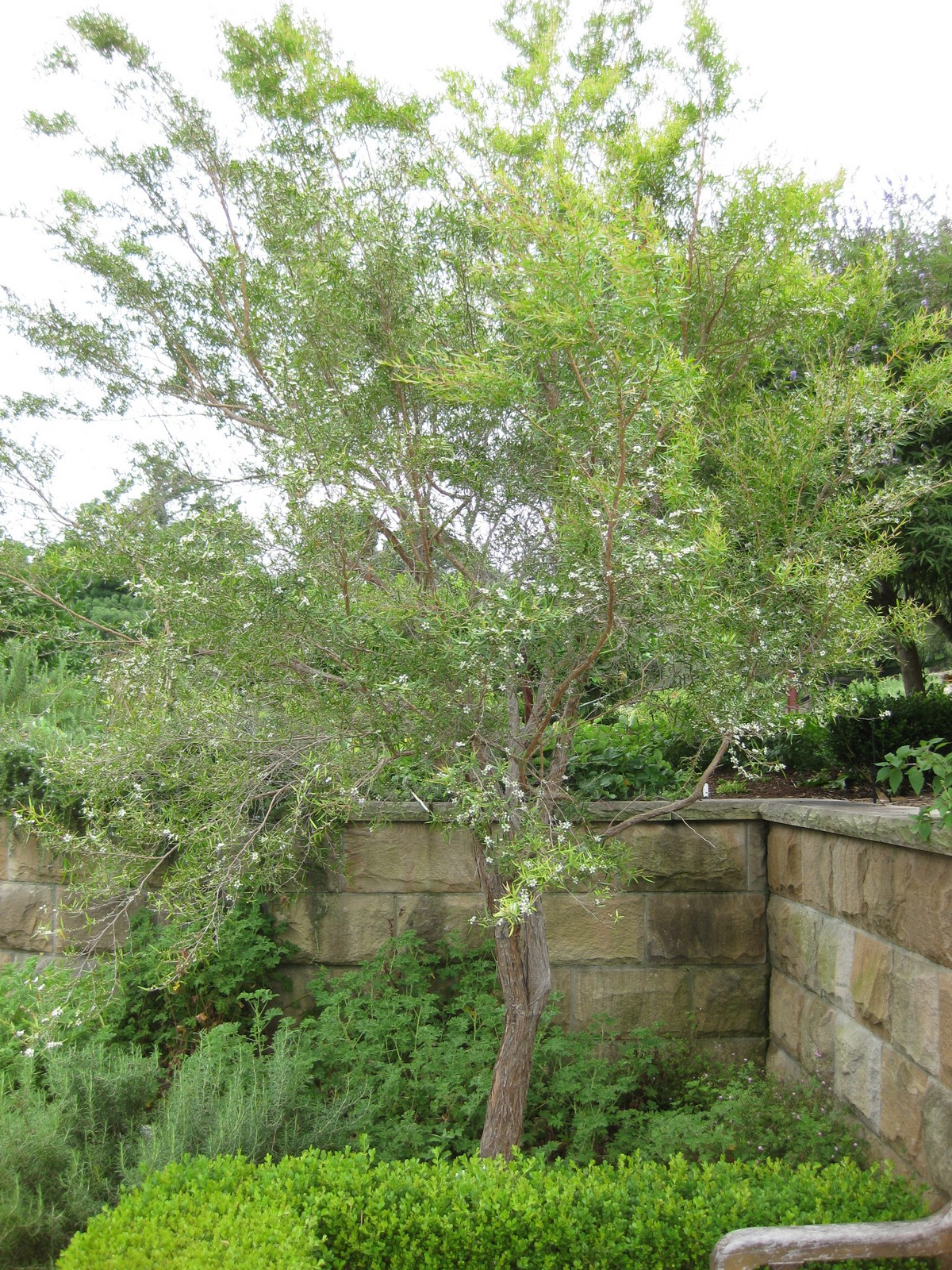 Photographed at the Royal Botanic Gardens Sydney (Australia) in January